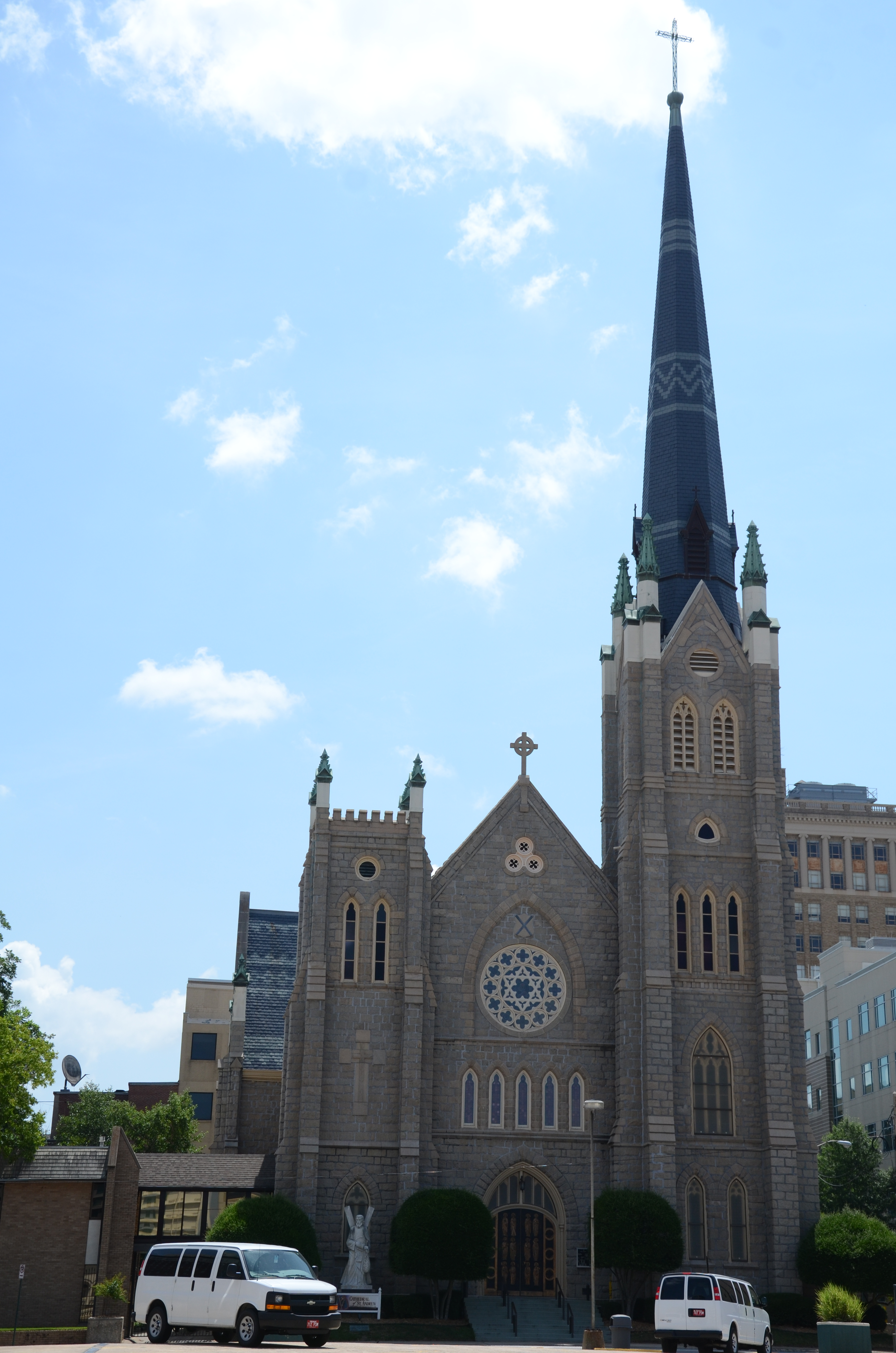 Saint Andrews Catholic Cathedral